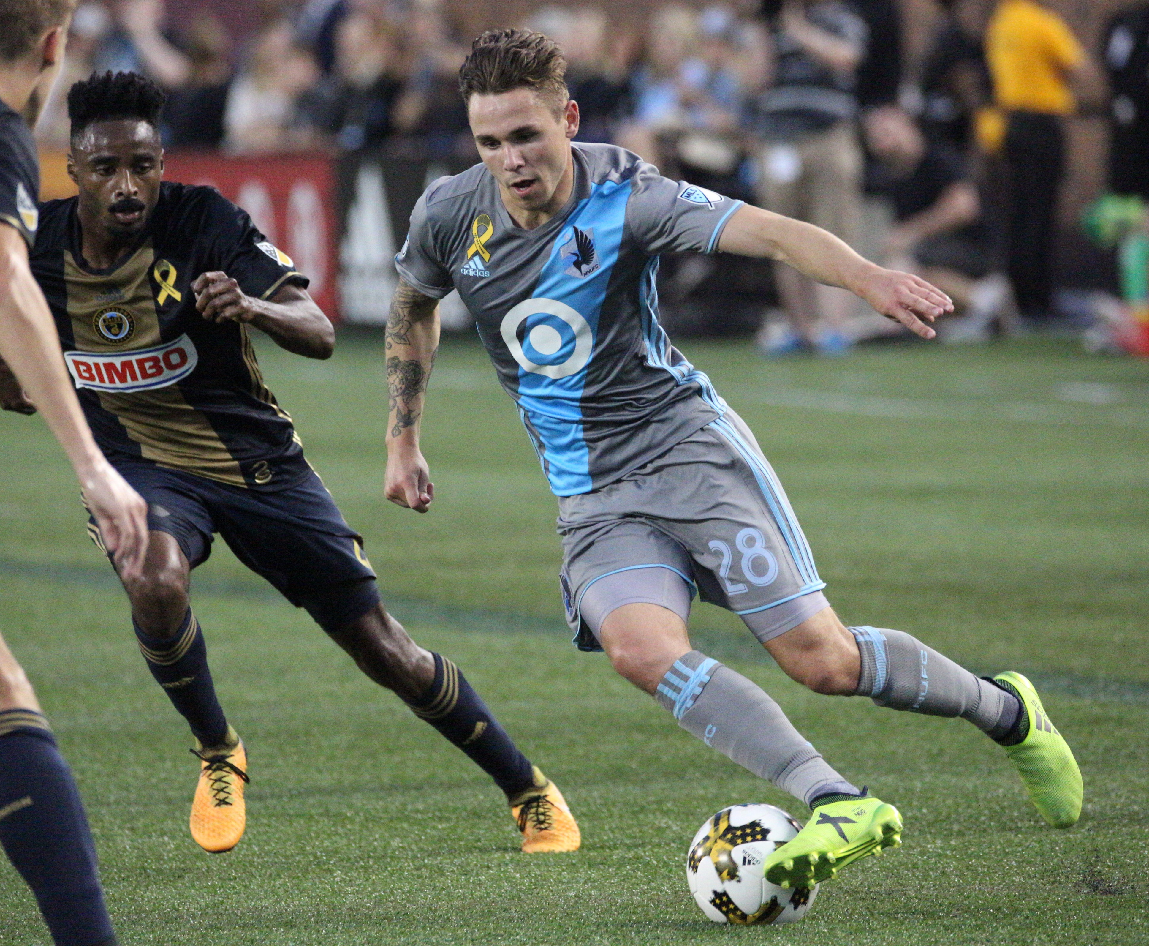 Sam Nicholson - Philadelphia Union - Minnesota UNITED - MLS - Soccer